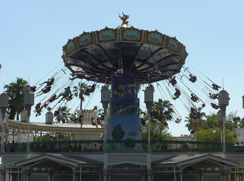 The Silly Symphony Swings attraction in operation at Disney California Adventure.